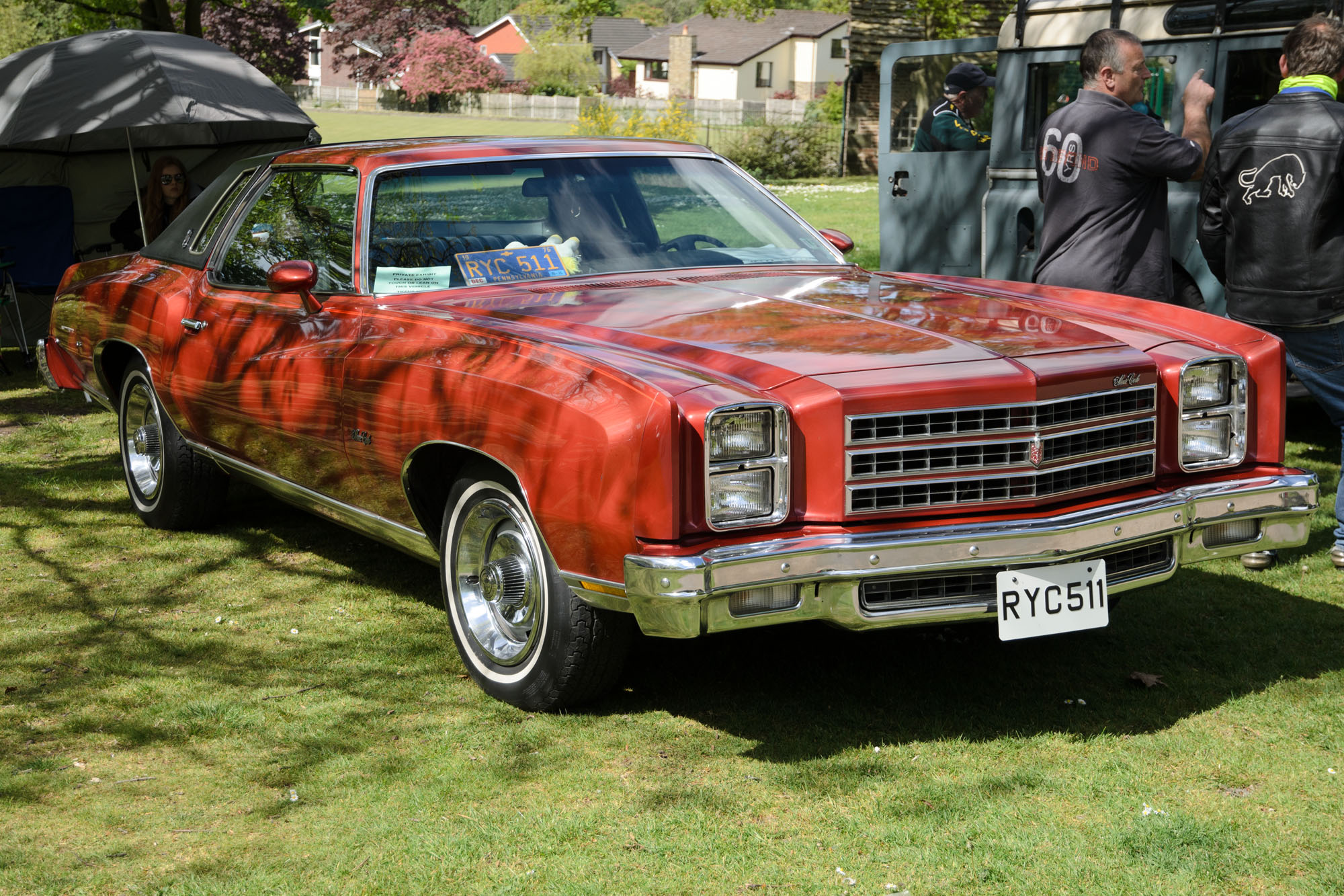 Chevrolet Monte Carlo (1976) Astley Park (Chorley) Classic Car Show 14/05/2017